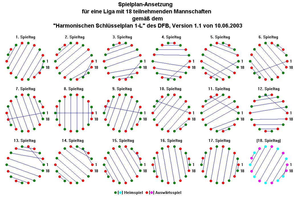 Round-robin tournament schedule for 18 participating teams according to the "Harmonic Key Plan 1-L" of the German Soccer Association (